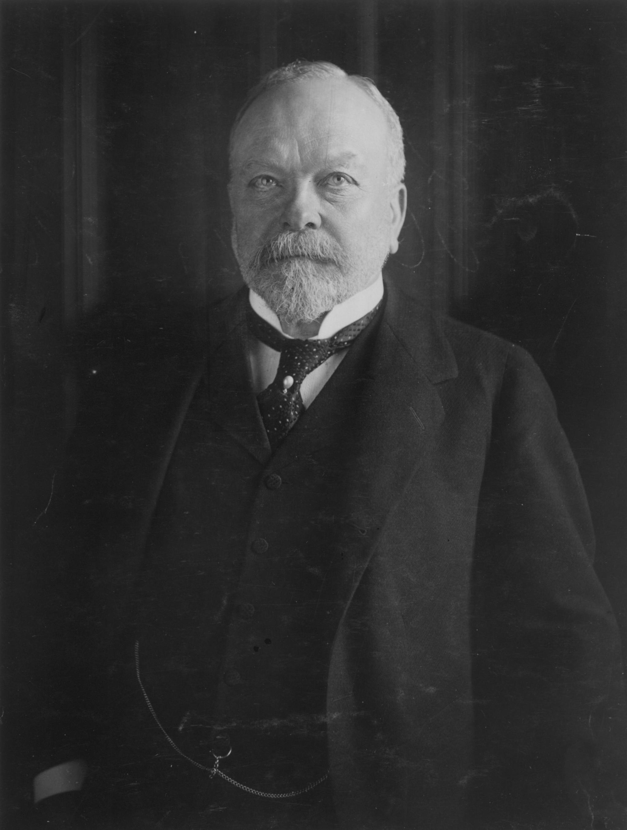 Publishing Company Founder Rudolf Mosse, Berlin